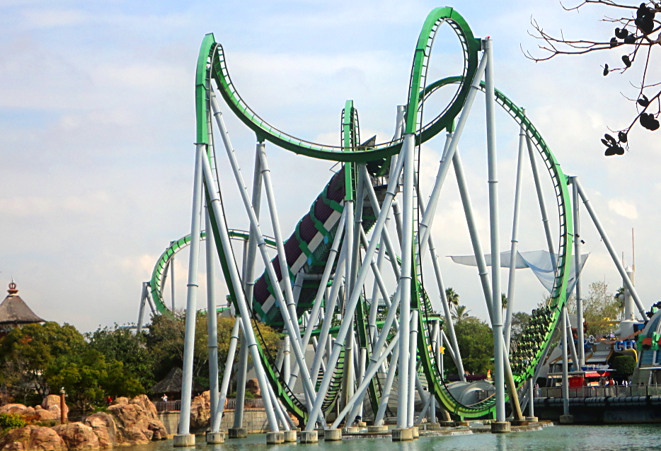 The Incredible Hulk roller coaster, in Universal Studios / Orlando FL